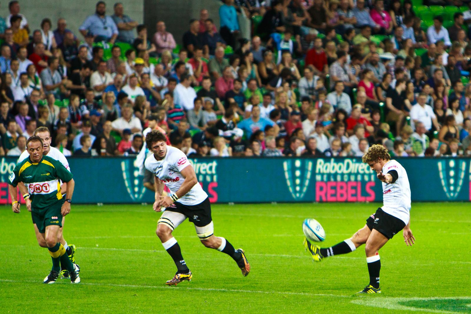 Rabodirect Rebels vs Sharks Rabodirect Rebels vs Sharks in the 2011 Super Rugby competition